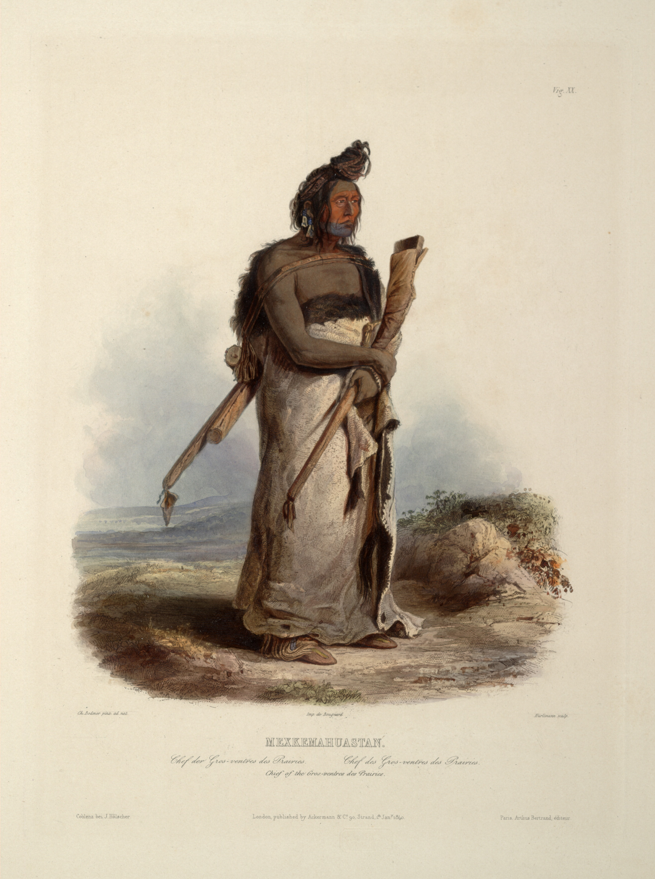 Mexkemahuastan Chief of the Gros-ventres des Praires Chief of the Bigbellies of the prarie